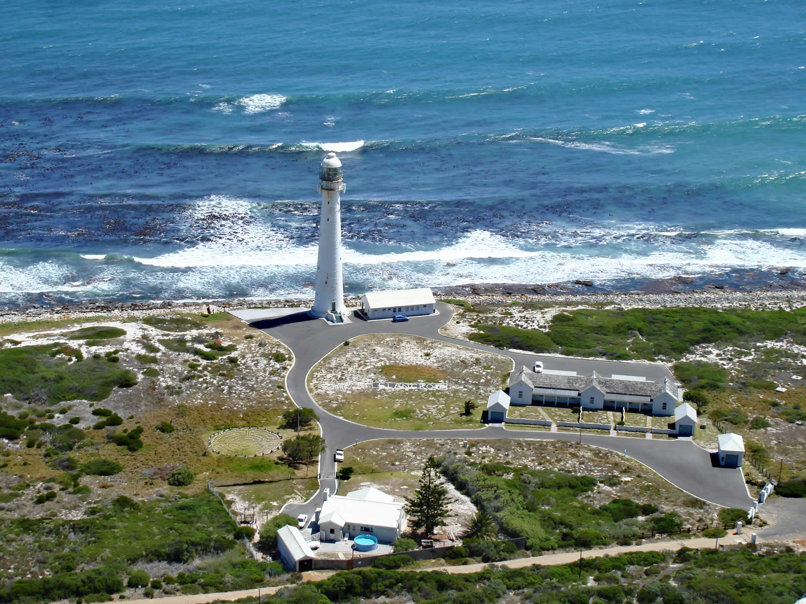 Beautiful sight of Kommetjie's Slangkop lighthouse from Cobra Camp, location of an abandoned World War II radar station.